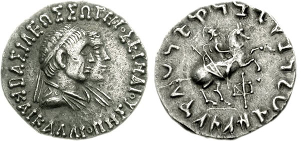 Coin of the Indo-Greek king Hermaios. The Greek inscription on the coin also mentions her spouse, the queen Calliope.